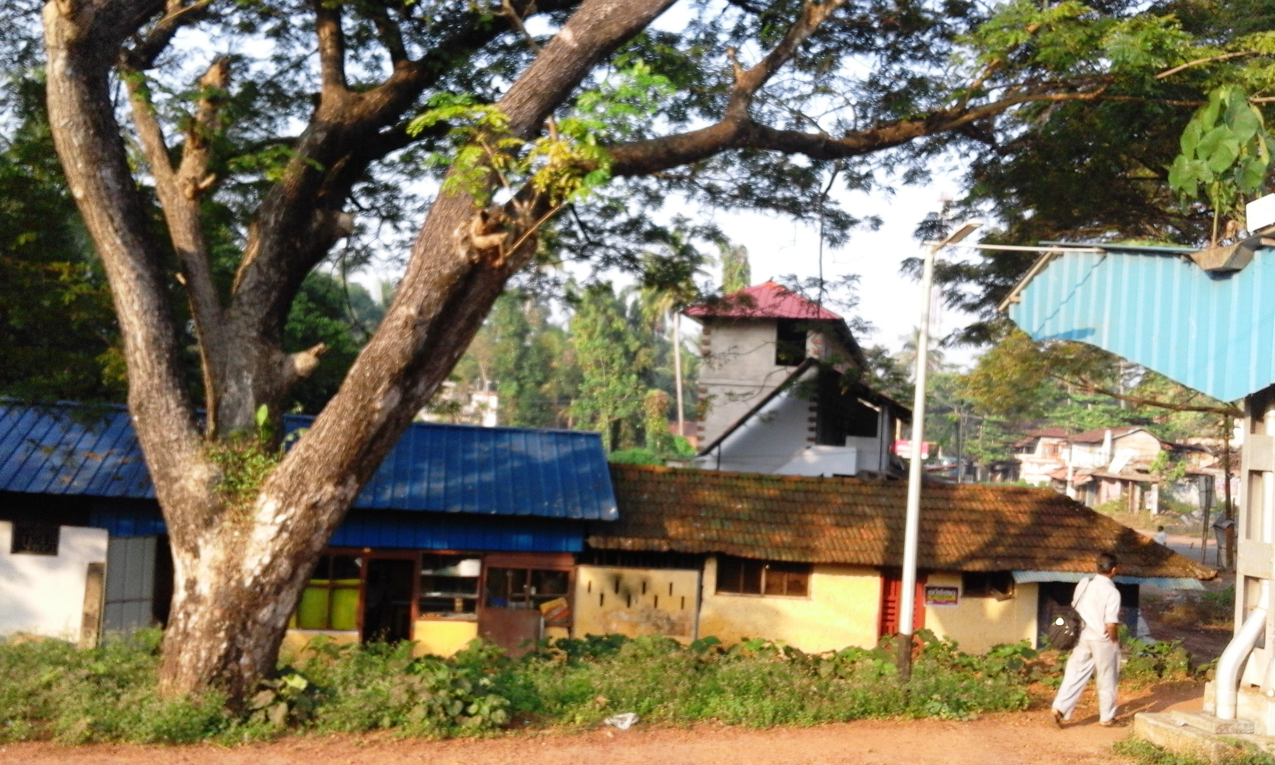 Vallikkunnu, Feroke, Kozhikode, India.